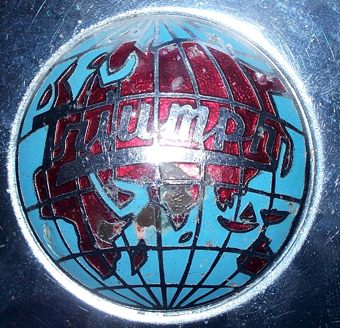 Triumph wheel cap TR3. Triumph world globe.